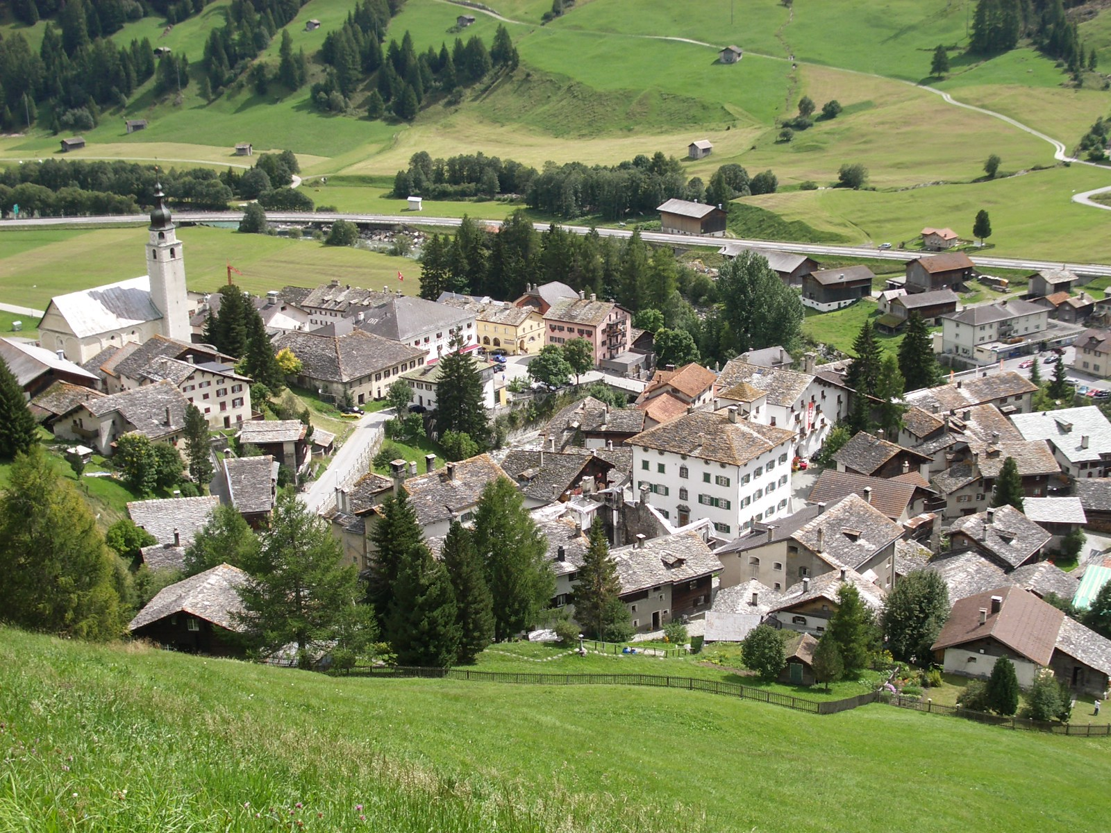 Splügen GR, Switzerland